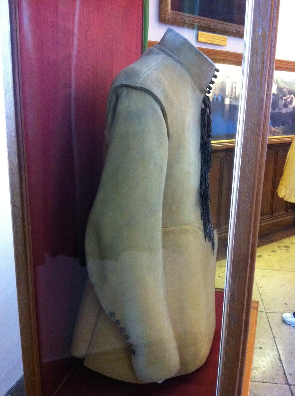 Leather Buff coat worn by Fairfax at the Battle of Maidstone, 1648, on display at Leeds Castle